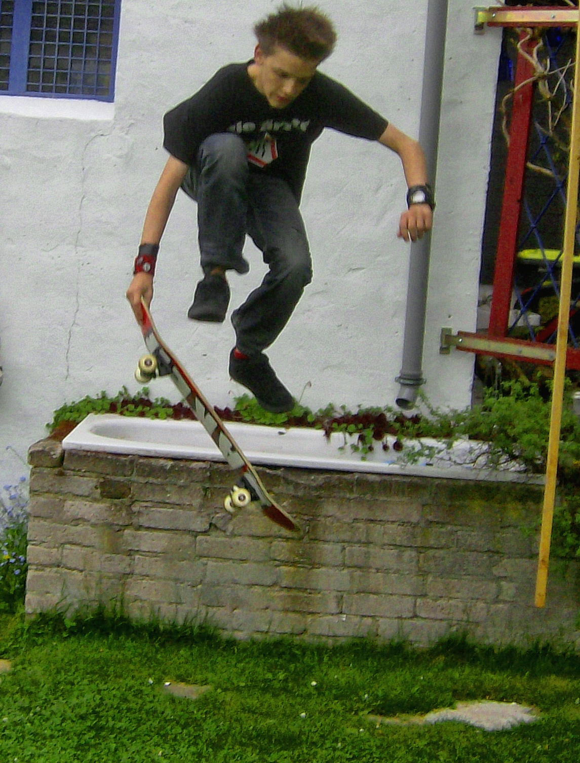 I'm doing the Caveman